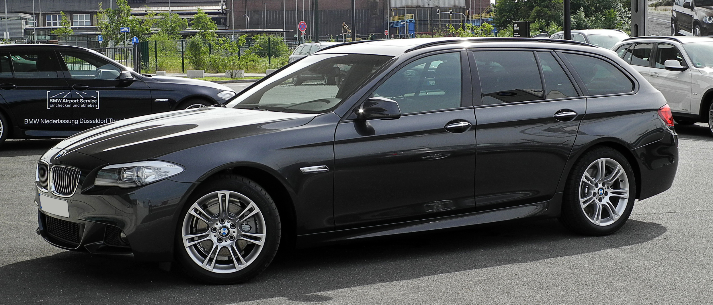 BMW 520d Touring M-Sportpaket